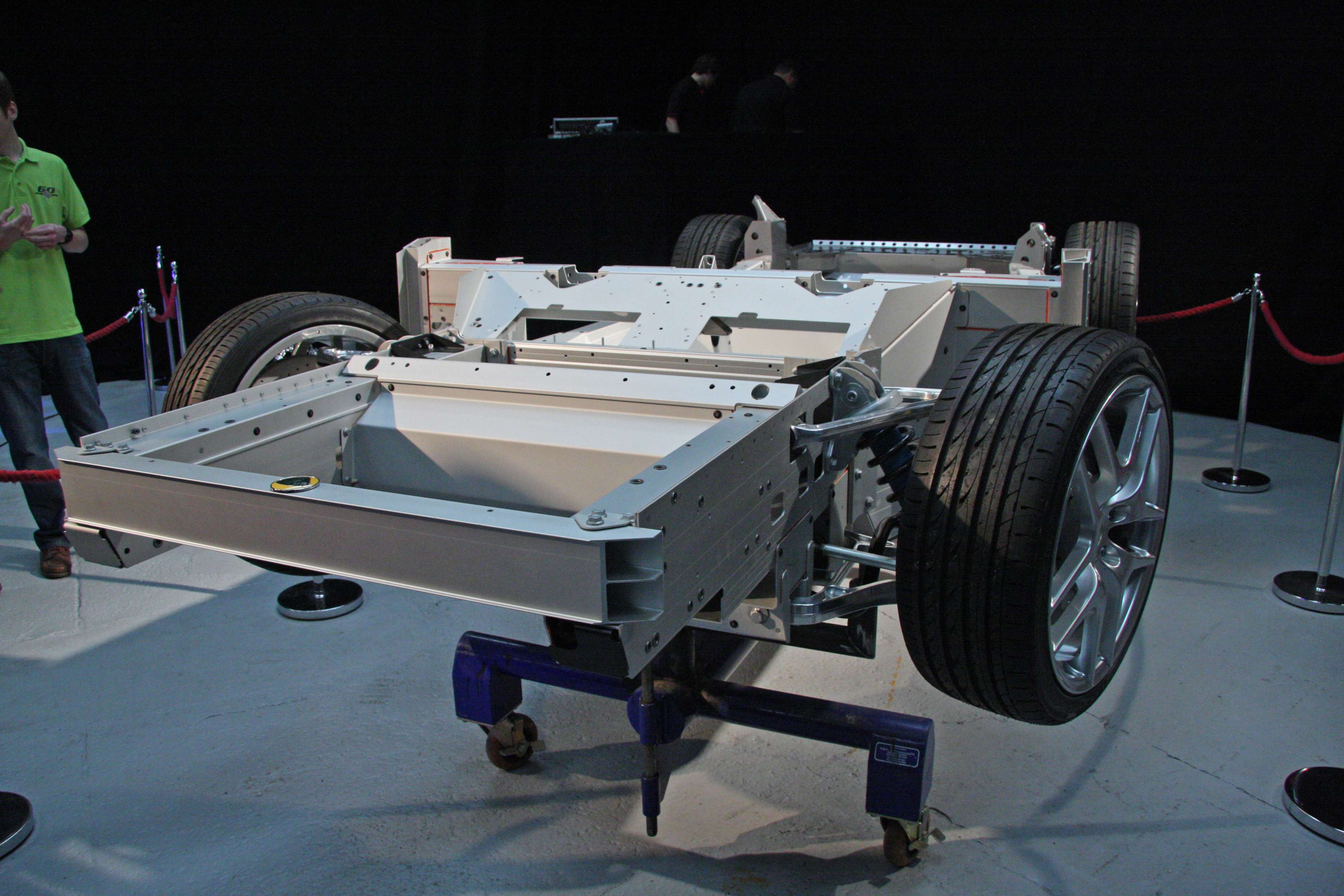 Lotus 60th Celebration